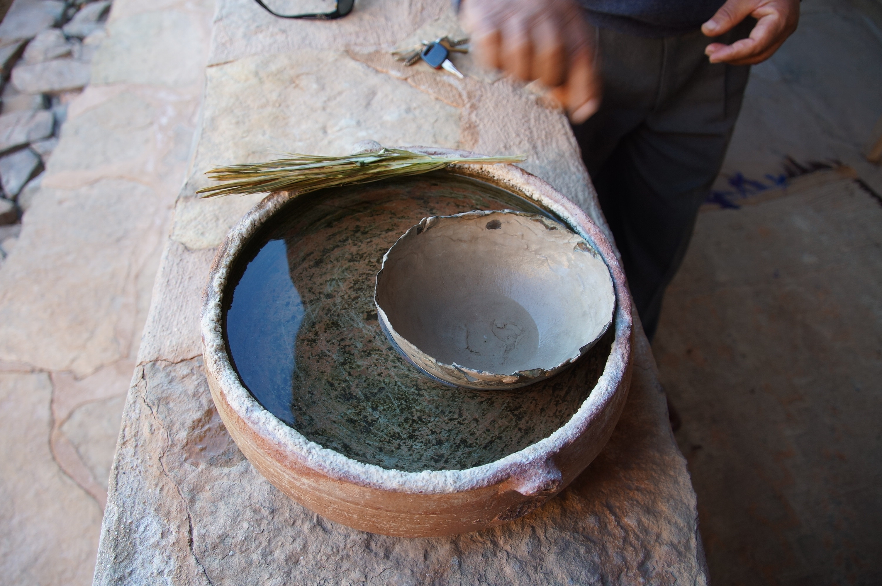 Maroccan Klepsydra, a traditional water clock. The smaller bowl has a small hole in its centre. When it sinks below the water level a certain period of time is over.